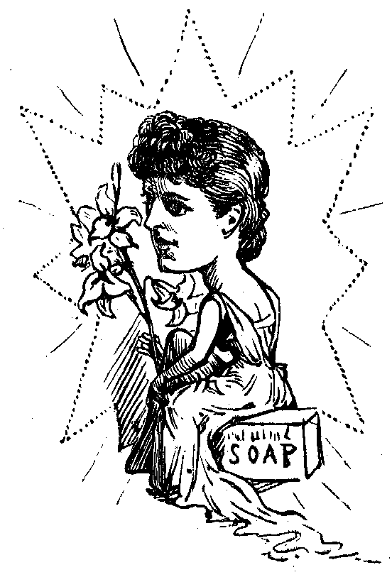 Caricature from Punch magazine of Lily Langtry. From the Punch Christmas Issue, December 1890, "Punch Among the Planets" Available from Project Gutenberg